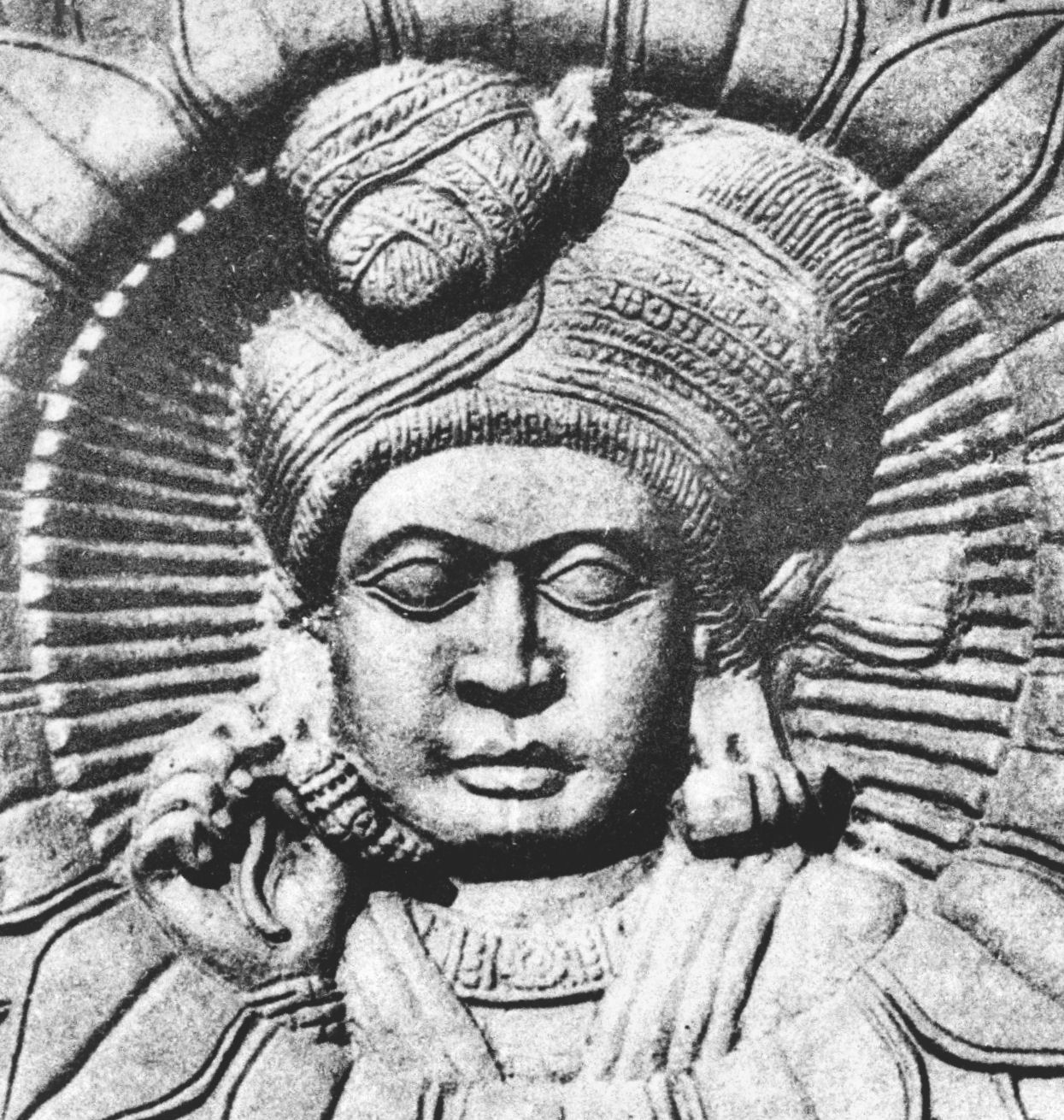 Bharhut Sunga individual